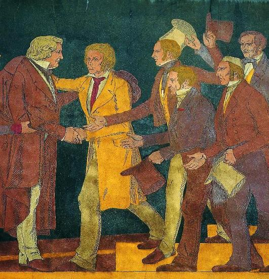 Detail from Jørgen Sonne's frieze on the facade of Thorvaldsens Musem in Copenhagen, Denmark. It shows Thorvaldsen's reception in Copenhagen. Seen are also Just Mathias Thielse (3 person from the left) behind Jonas Collin among others.